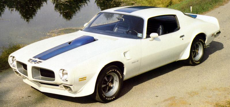 Pontiac Trans Am 1971